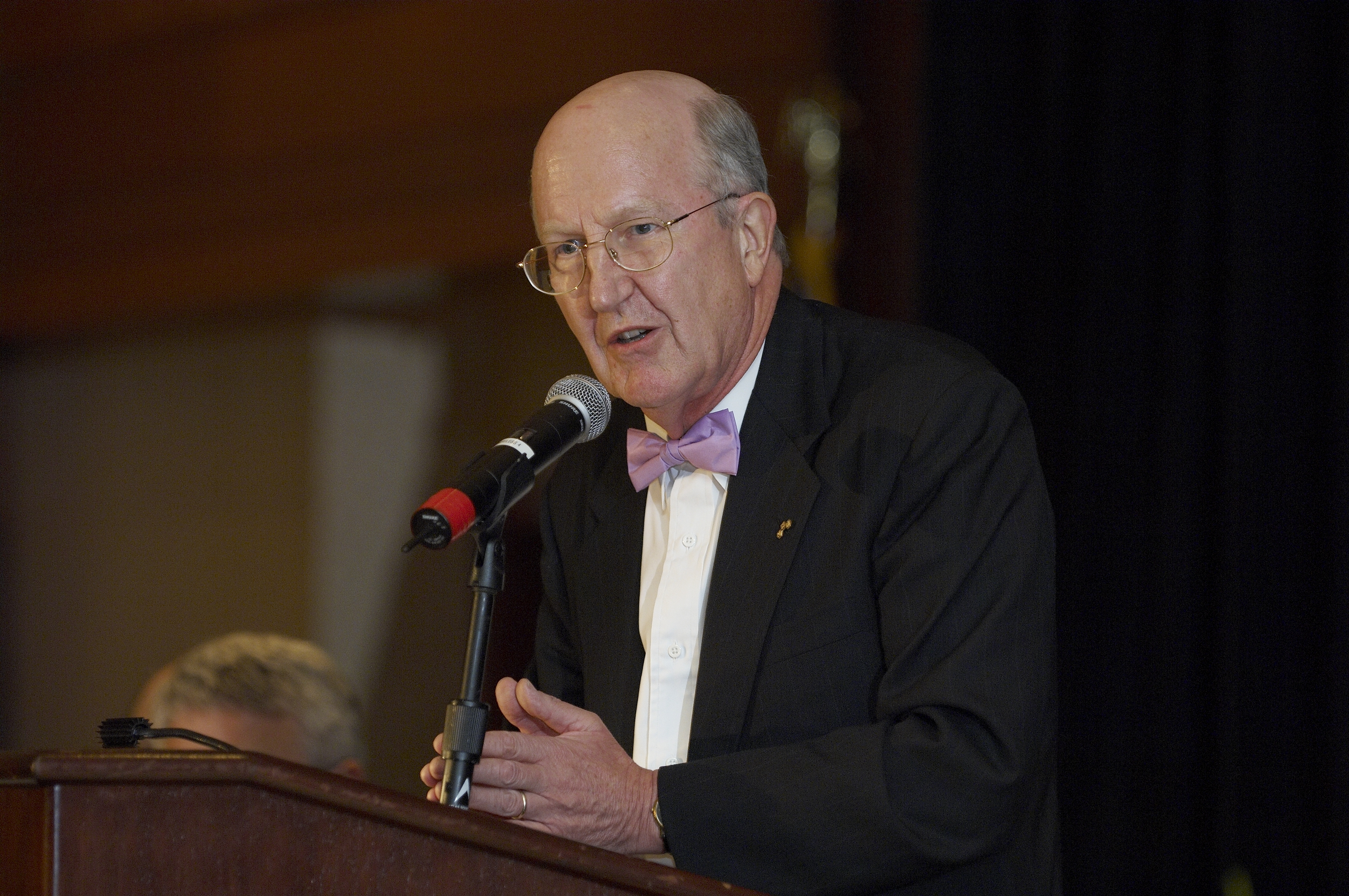 Photograph of Arnold Thackray, founder and president of the Chemical Heritage Foundation, at Innovation Day, 7 September 2005, at the Chemical Heritage Foundation, Philadelphia, PA, USA.